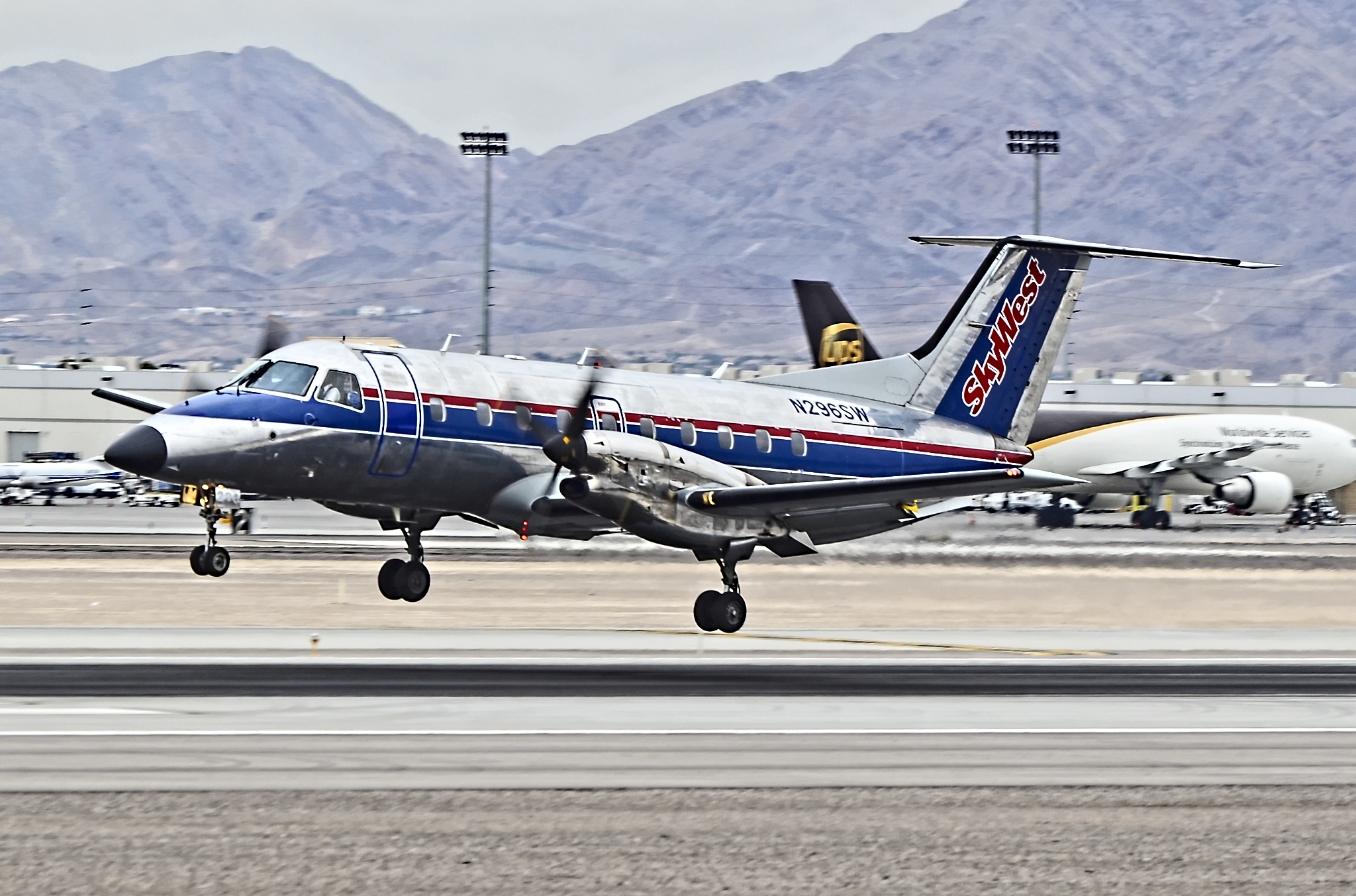 Las Vegas - McCarran International (LAS / KLAS) USA - Nevada, October 9, 2013 Photo: Tomás Del Coro